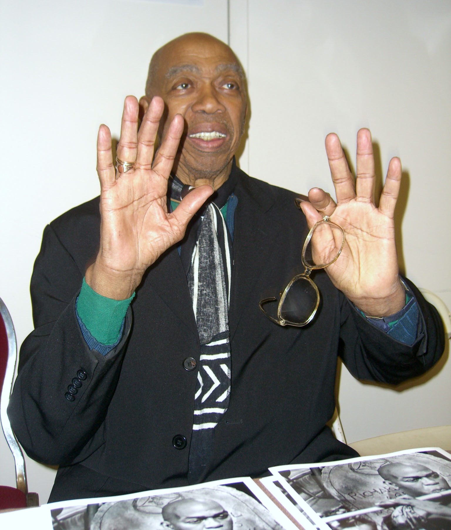 Actor Geoffrey Holder at the November 2008 Big Apple Convention in Manhattan.